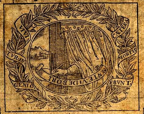 Front device from Henry Peacham's Minerva Britanna or A Garden of Heroical Deuises, furnished, and adorned with Emblemes and Impresas of sundry natures. London, 1612